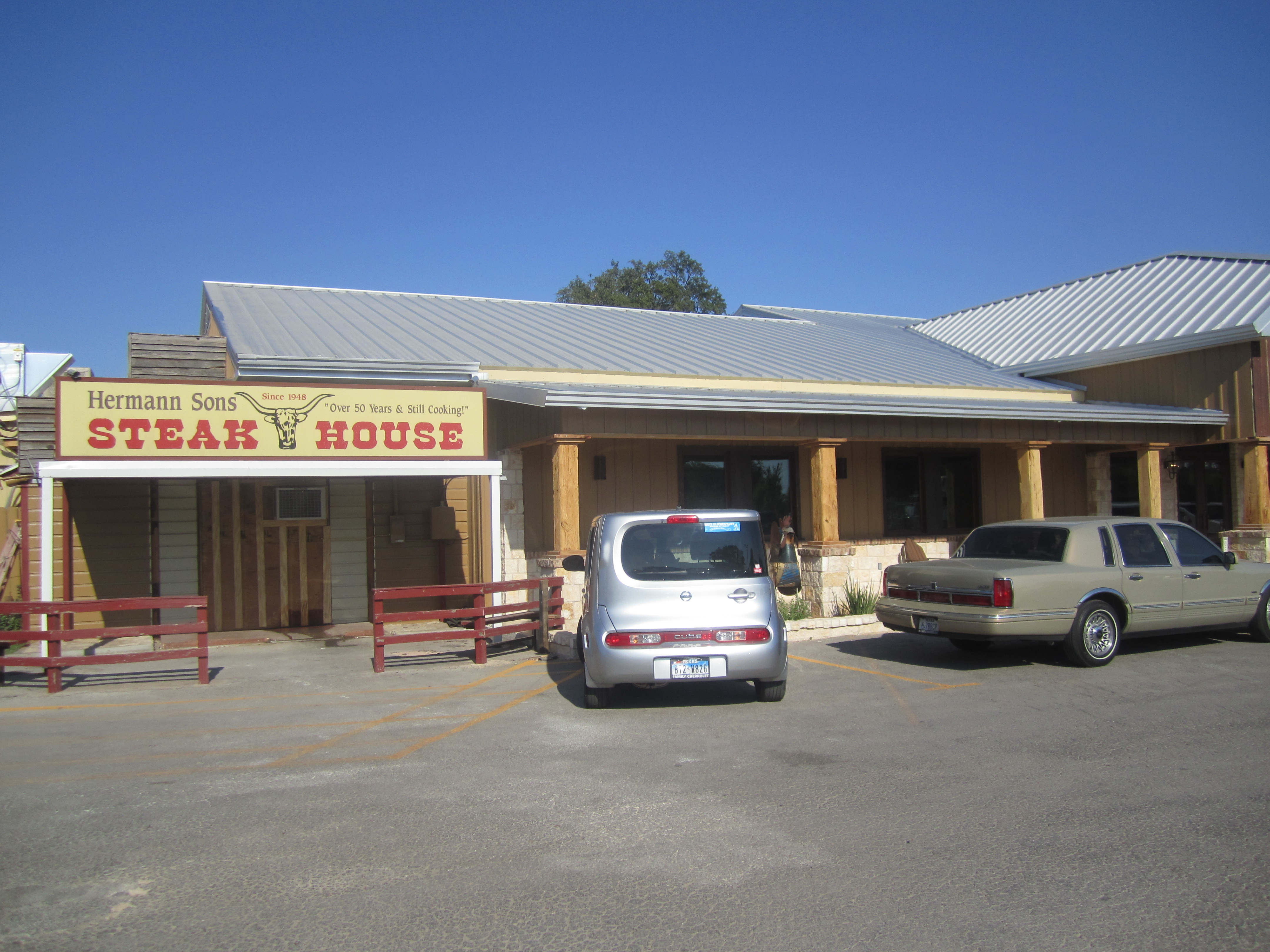 I took photo with Canon camera of Hermann Sons Steakhouse in Hondo, TX.